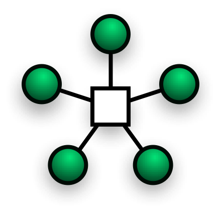 Active ring topology of a telecommunication network